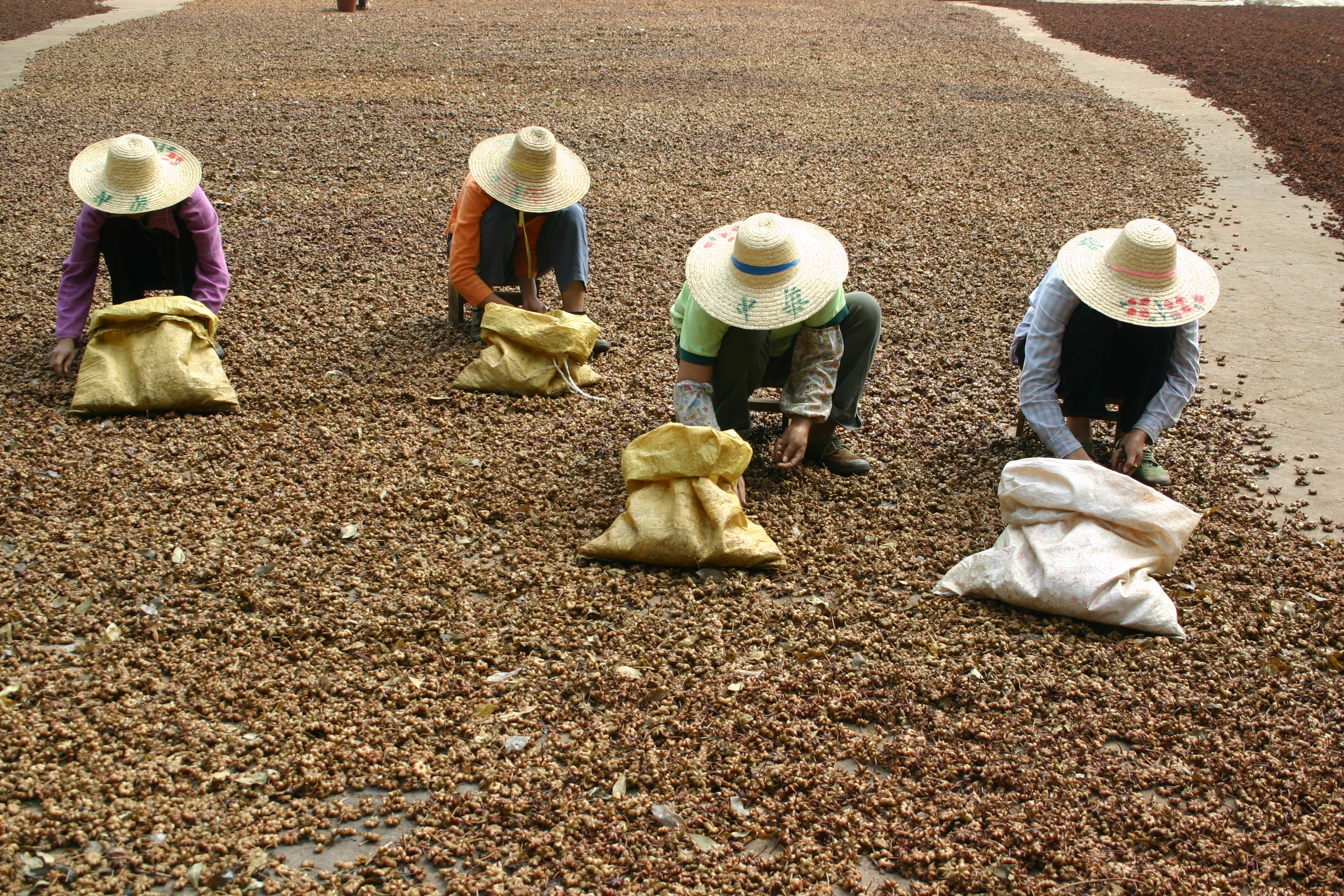 Guangxi - star anise farm in china 2005